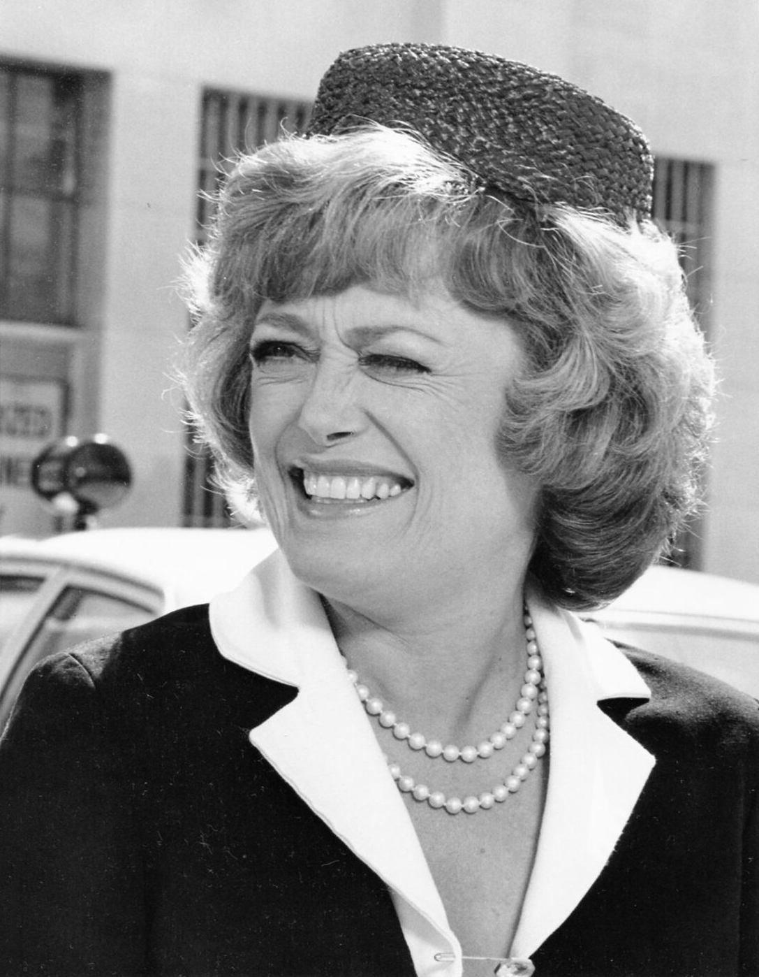 Depicted person: Rue McClanahan – actress